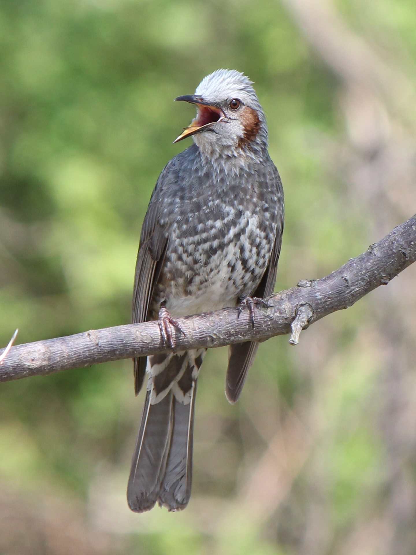 Hypsipetes amaurotis (Microscelis amaurotis) (Brown-eared Bulbul) crying on branch, in Aichi prefecture, Japan.